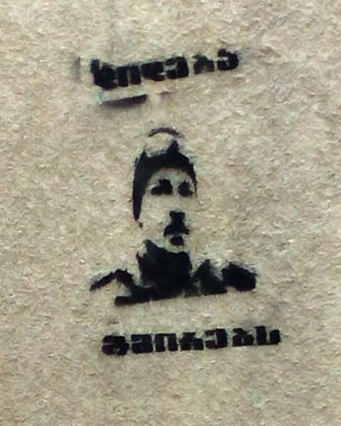 "Hail to Heroes", a stencil graffiti in Tbilisi, depicting Alexandre Grigolashvili, a pro-Ukrainian volunteer fighter killed in action in 2014.